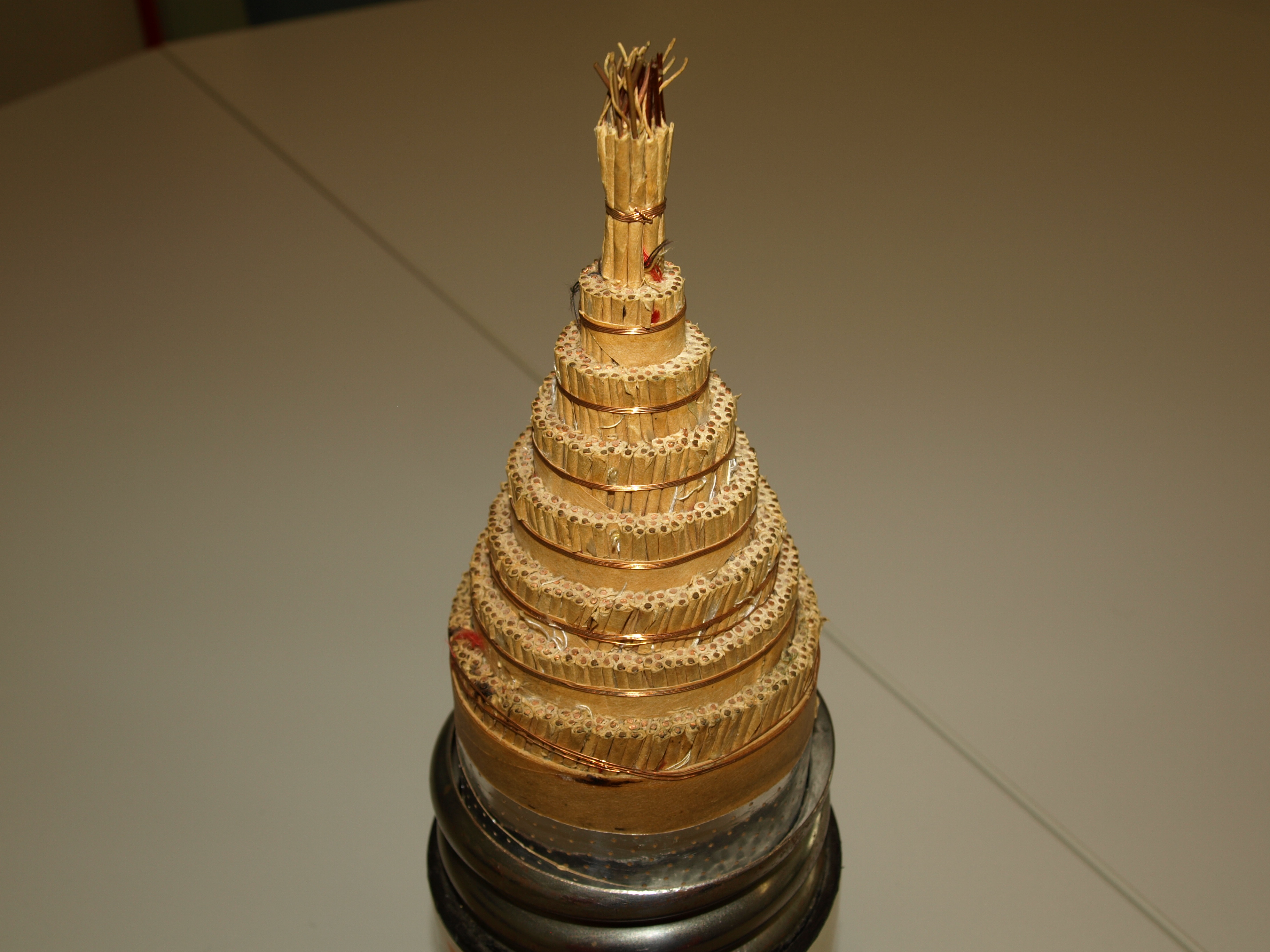 Telecommunication cable.